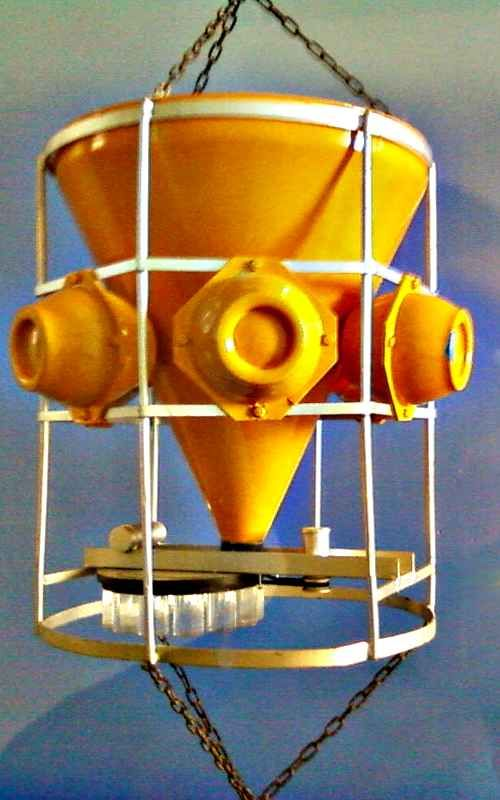 Oceanographic instrument: Sediment trap